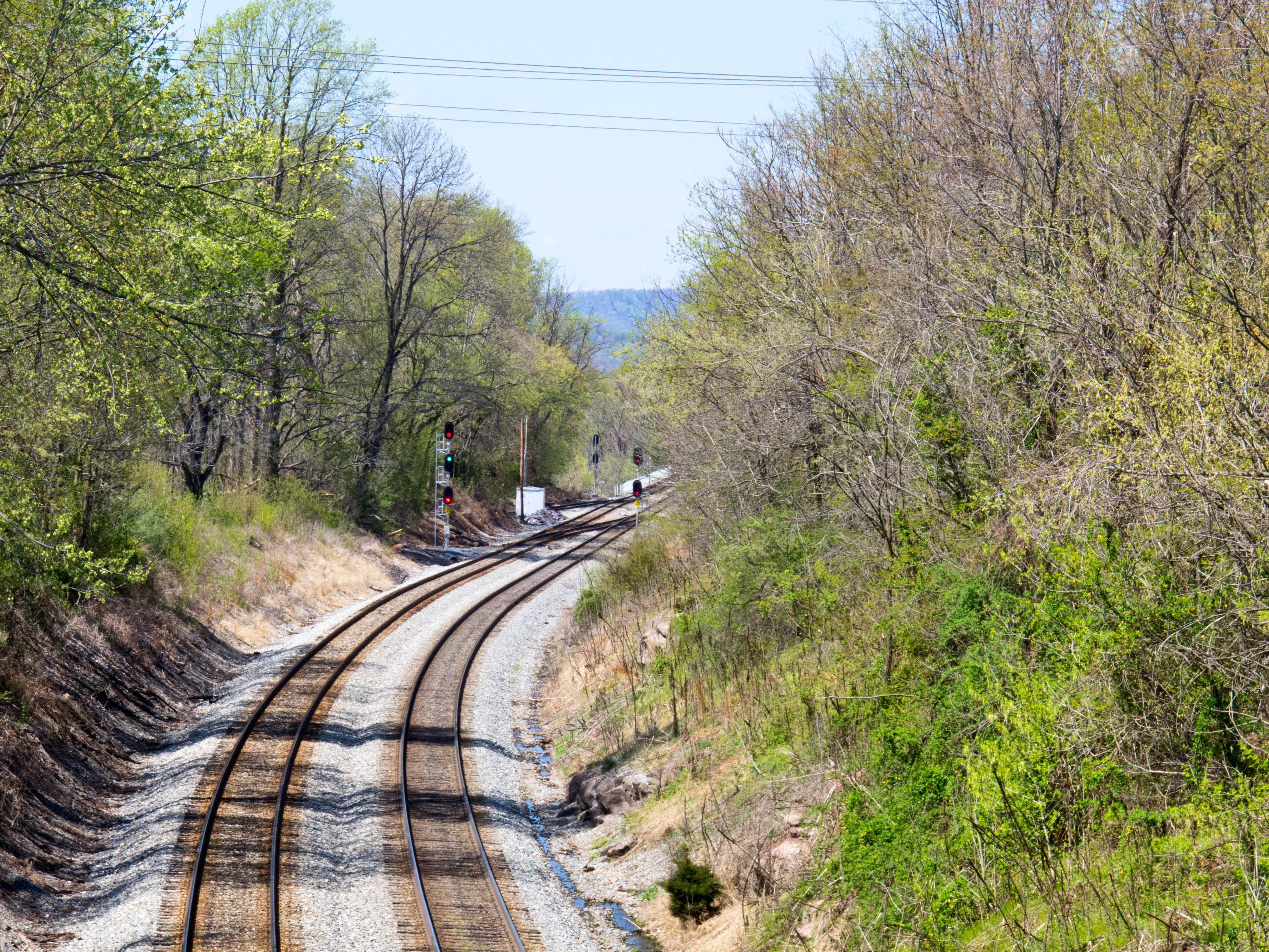 Metropolitan Subdivion CSX just before the dickerson spur (for the power plant) and below the Monocacy River bridge (just beyond the curve in the photo).